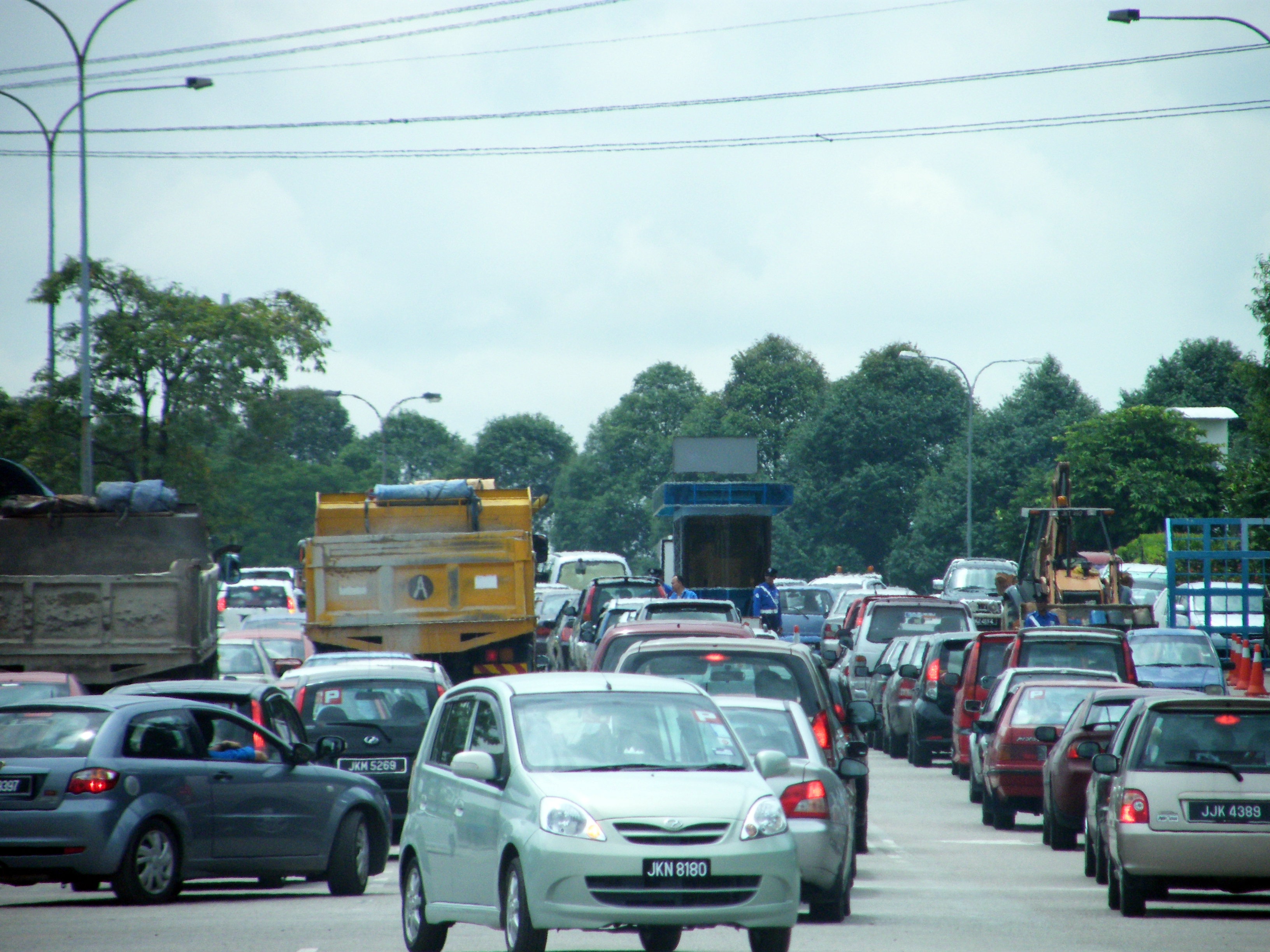 Traffic congestion in Pasir Gudang after 5pm.